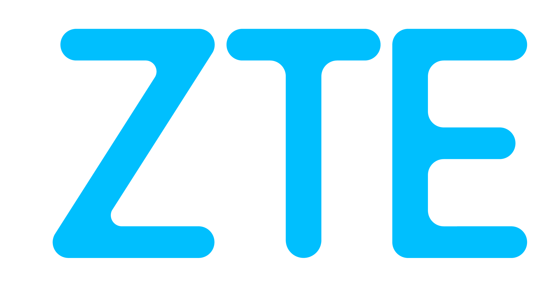 This is Logo of Zhong Xing Telecommunication Equipment Company Limited (ZTE Com, Ltd)